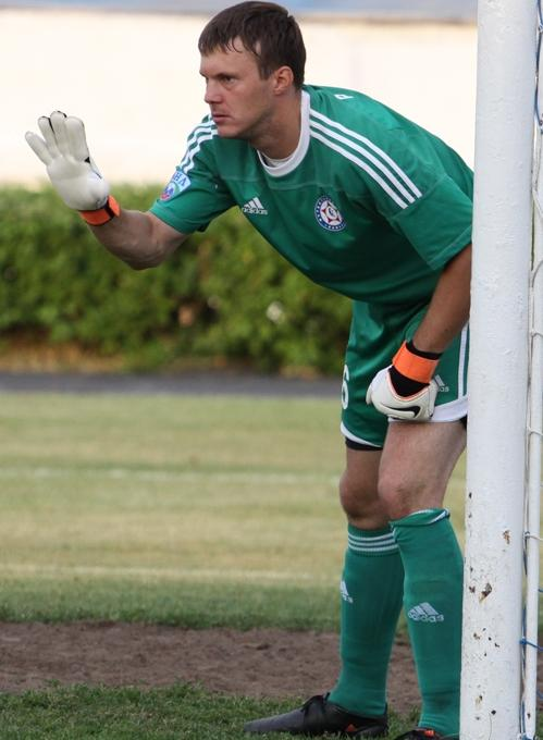 Denis Vavilin with FC KAMAZ Naberezhnye Chelny.